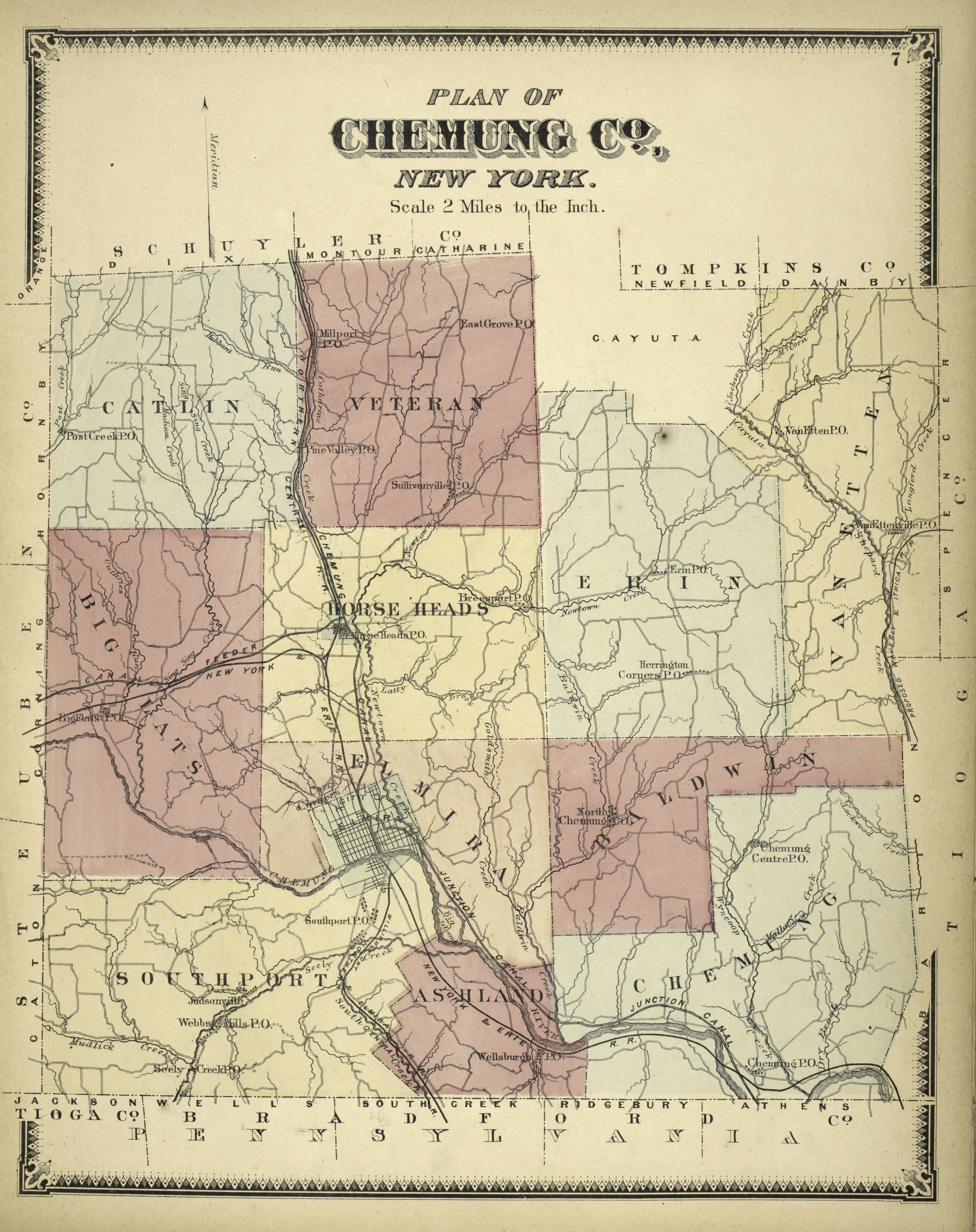 1869 map of Chemung County, New York. Includes Horseheads and Elmira.